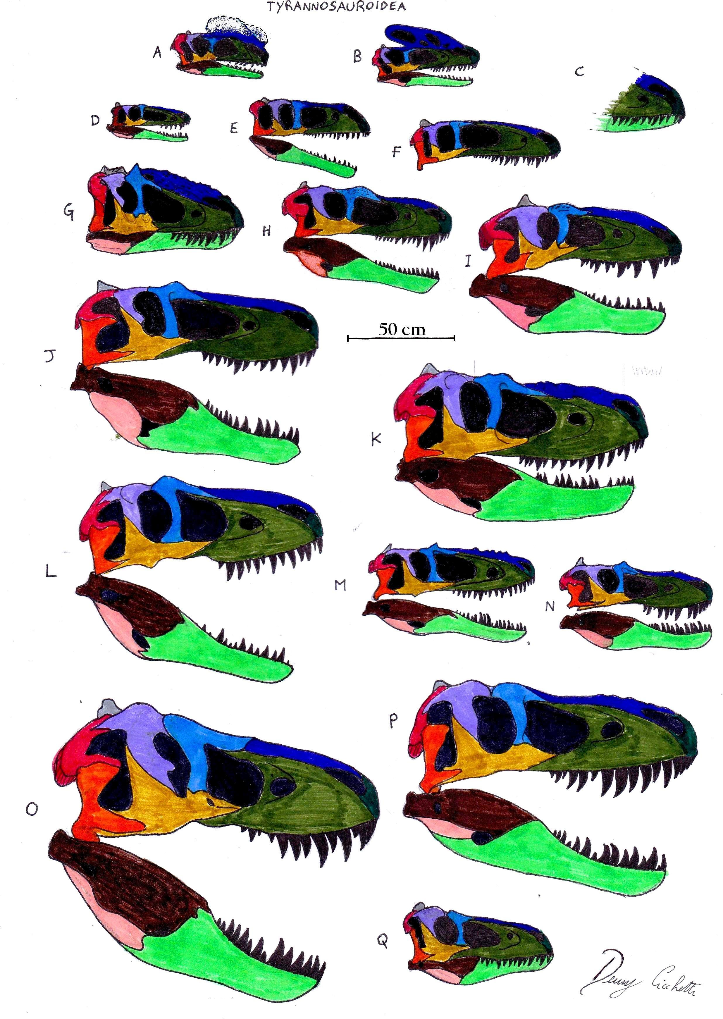 A = Proceratosaurus B = Guanlong C = Sinotyrannus D = Dilong E = Eotyrannus F = Xiongguanlong G = Yutyrannus H = Appalachiosaurus I = Bistahieversor J = Gorgosaurus K = Albertosaurus L = Daspletosaurus M = Alioramus N = Teratophoneus O = Tyrannosaurus P = Tarbosaurus Q = Nanotyrannus